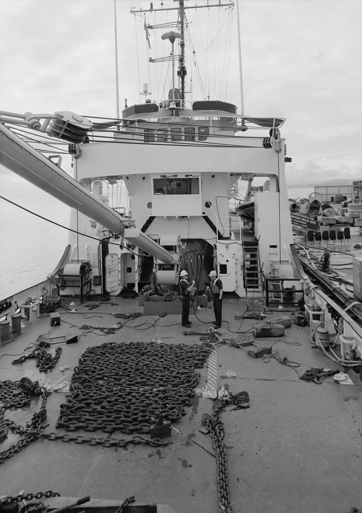 USCG Buttonwood buoy deck. Photographed at Yerba Buena Island in San Francisco Bay.